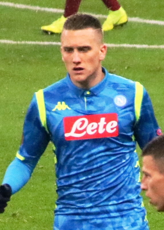 Euro League match round of 16 2nd leg